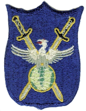 Emblem of the 365th Bombardment Squadron (SAC)